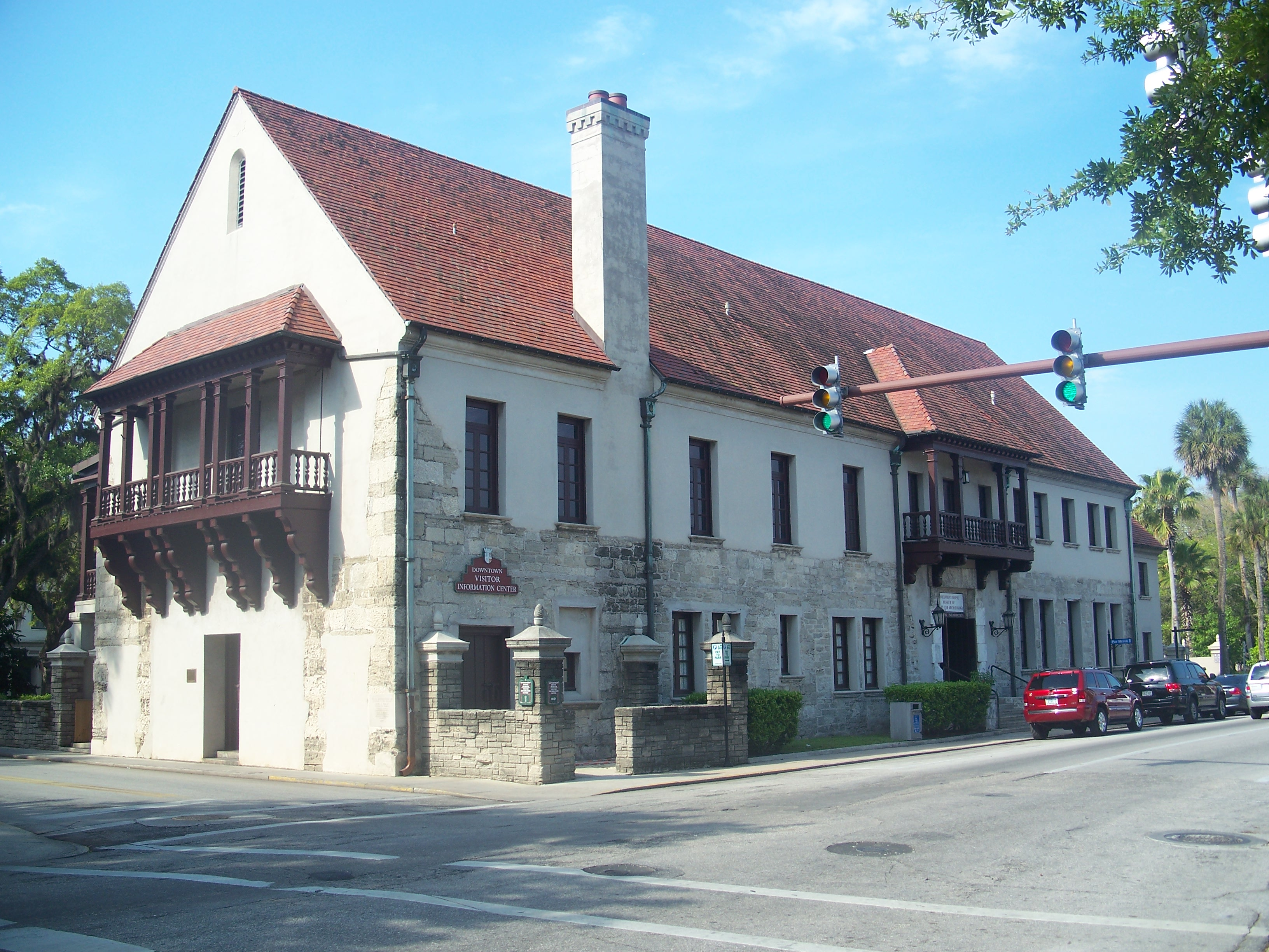 St. Augustine, Florida: Government House (St. Augustine)